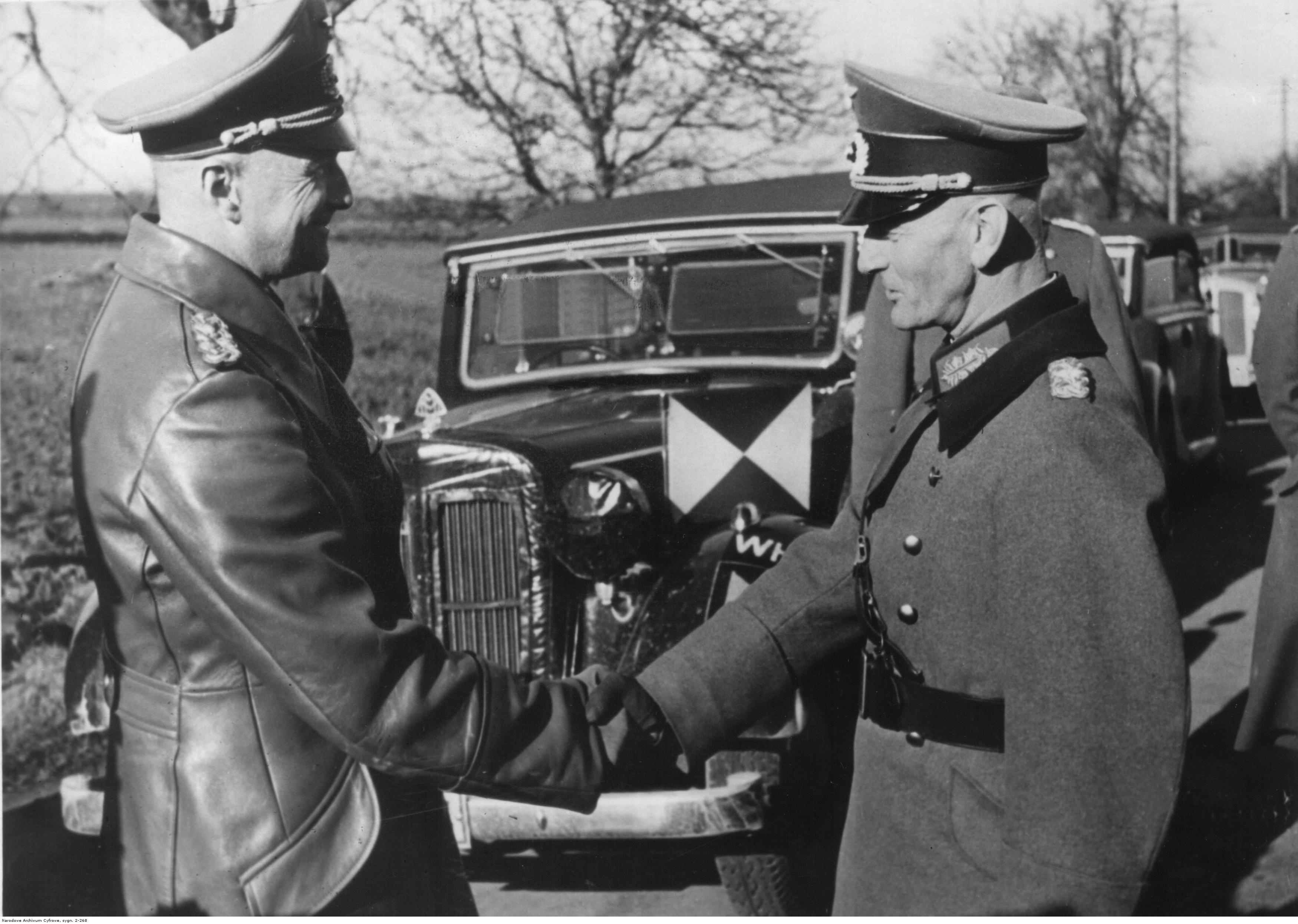 Colonel General Walther von Brauchitsch greets another general.